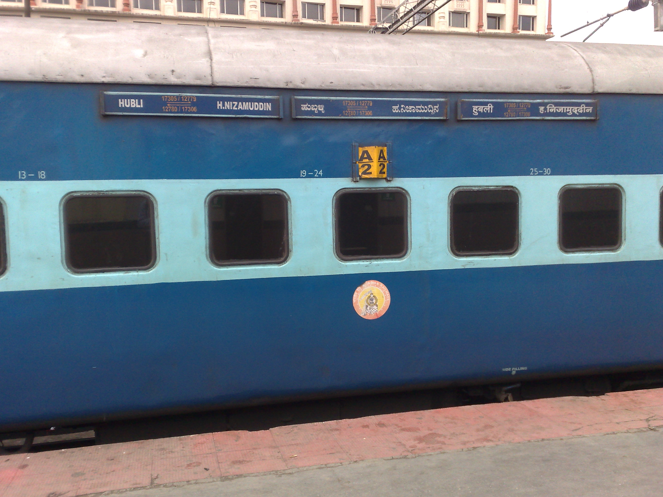 17305 Hubli Link Express - AC 2 tier coach